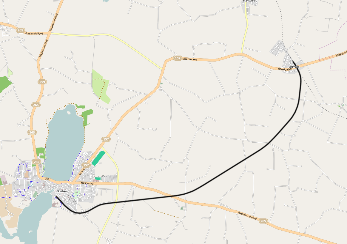 Railway line Dalmose - Skælskør